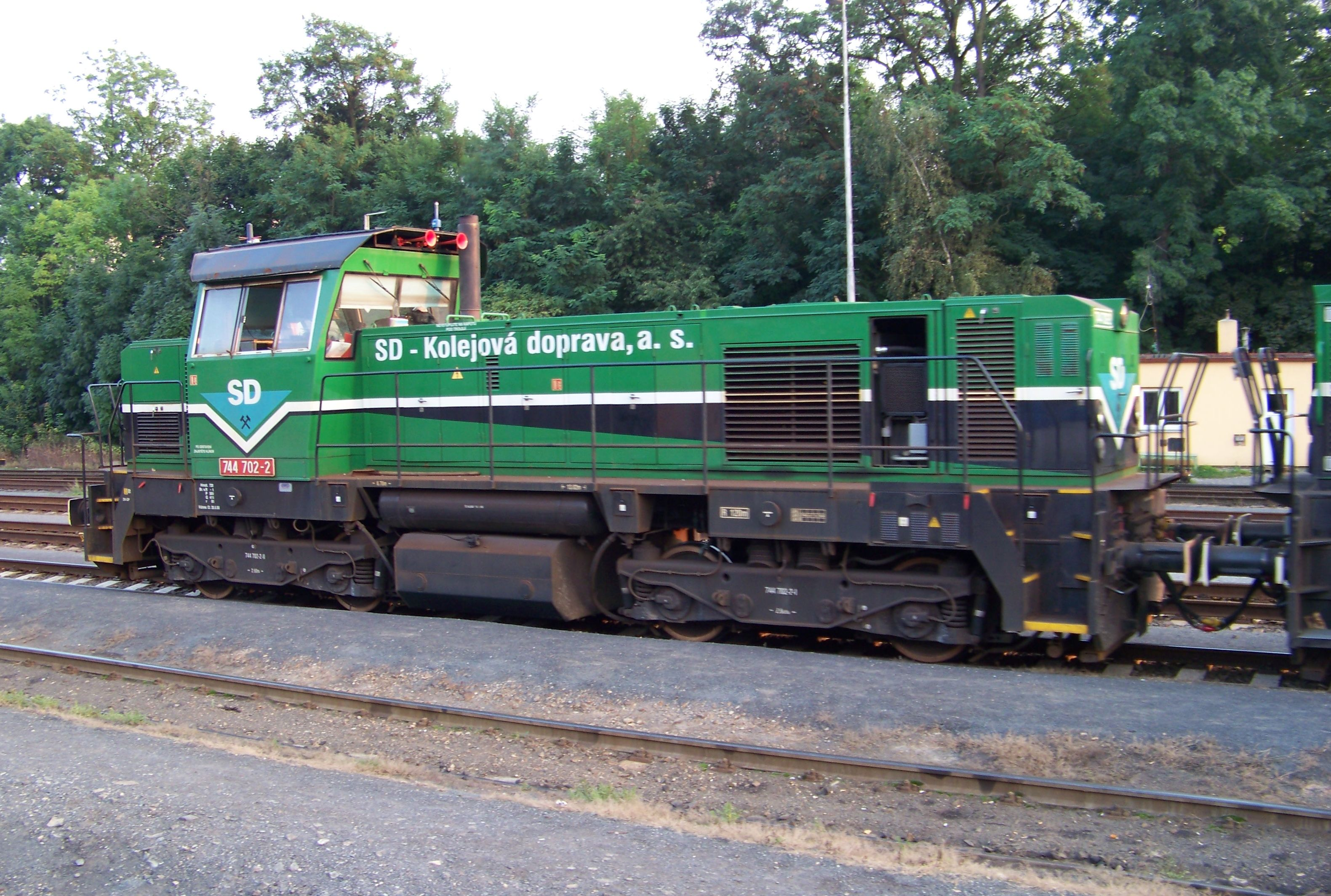 Rakovník II, Rakovník District, Central Bohemian Region, the Czech Republic. Locomotive class 744 of SDKD.